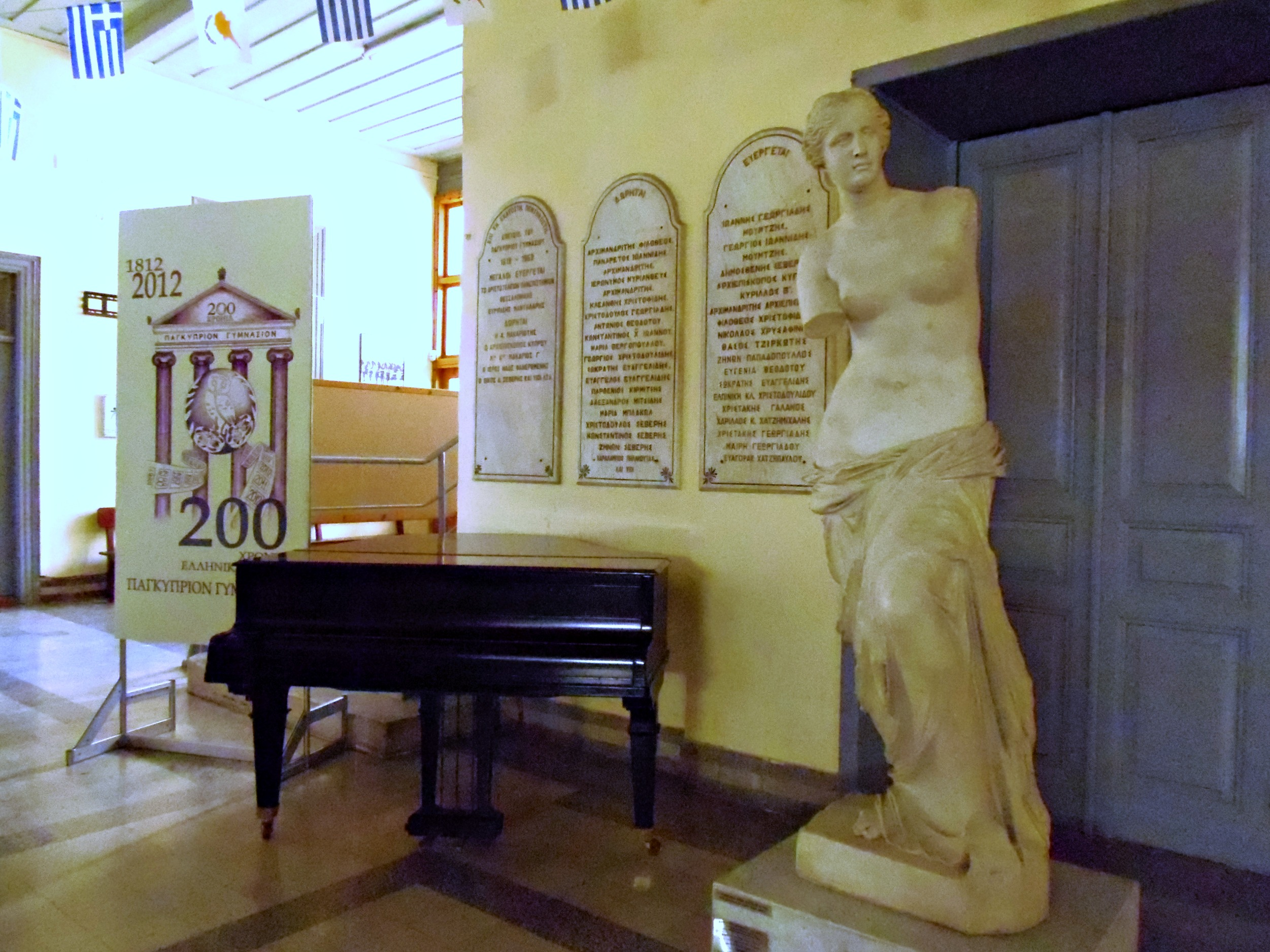 The lobby of the Pancyprian Gymnasium in Nicosia, Cyprus